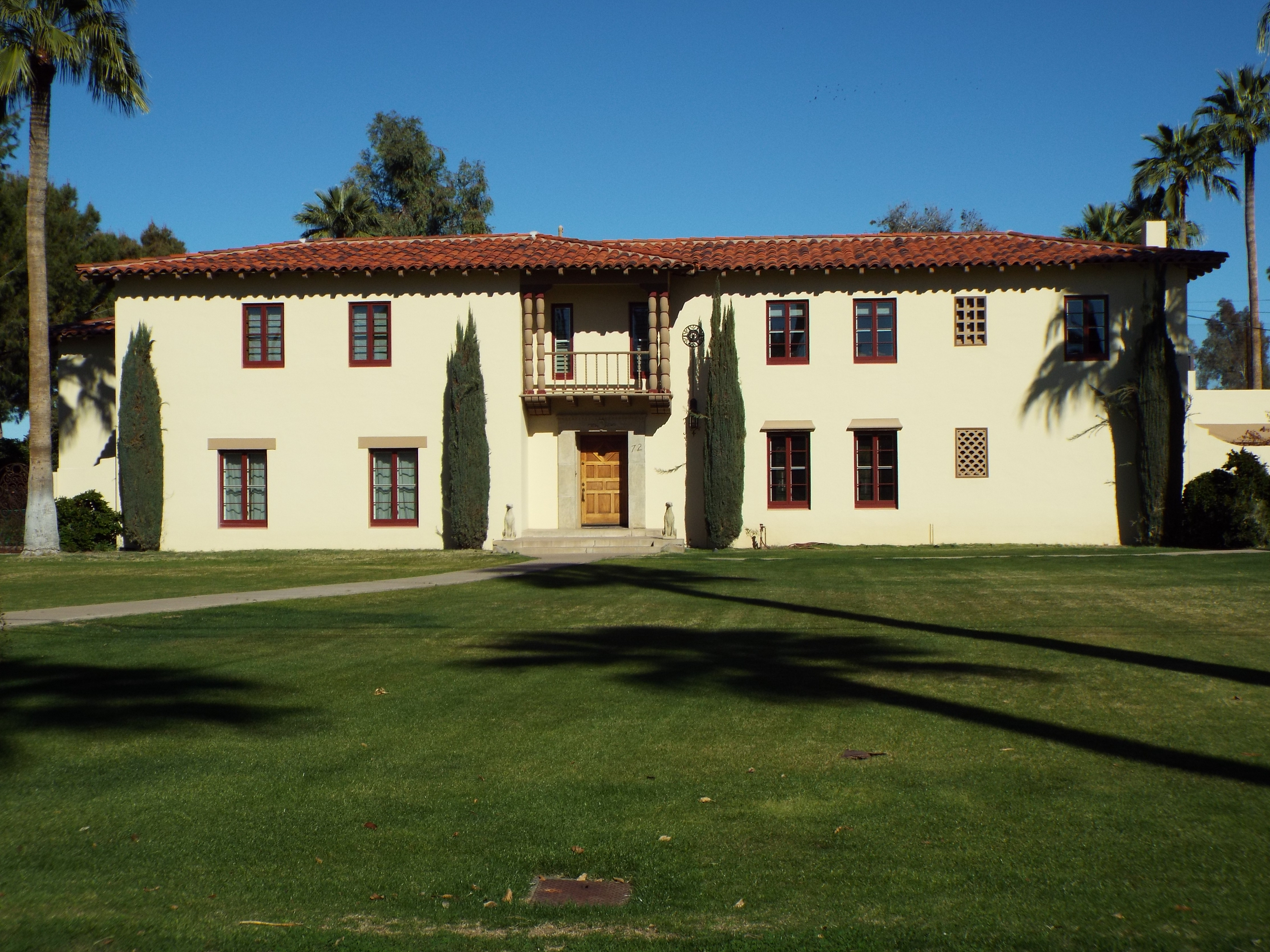 The Borah House was built in 1931 and is located at 72 E. Country Club Dr. in Phoenix, Az. The house was listed in the National Register of Historic Places on March 15, 2018, reference #100002209.